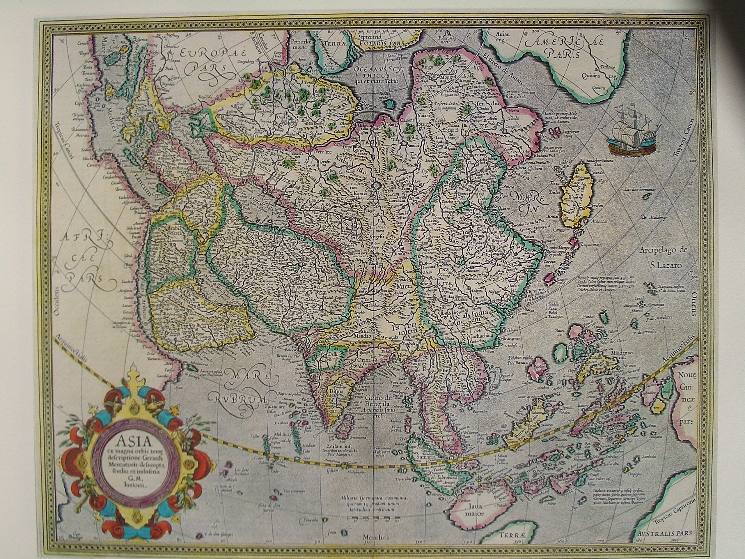 Asia from the great World [atlas] described by Gerhard Mercator, selected with zeal and diligence by Gerhard Mercator the Younger. Note that the prime meridian used is not the Greenwich one. Naples is placed at about 40° E, suggesting a prime meridian close to 25° W. But the Bering strait is shown at 180°.